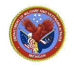 Seal of the State of Michigan Department of Military and Veterans Affairs.